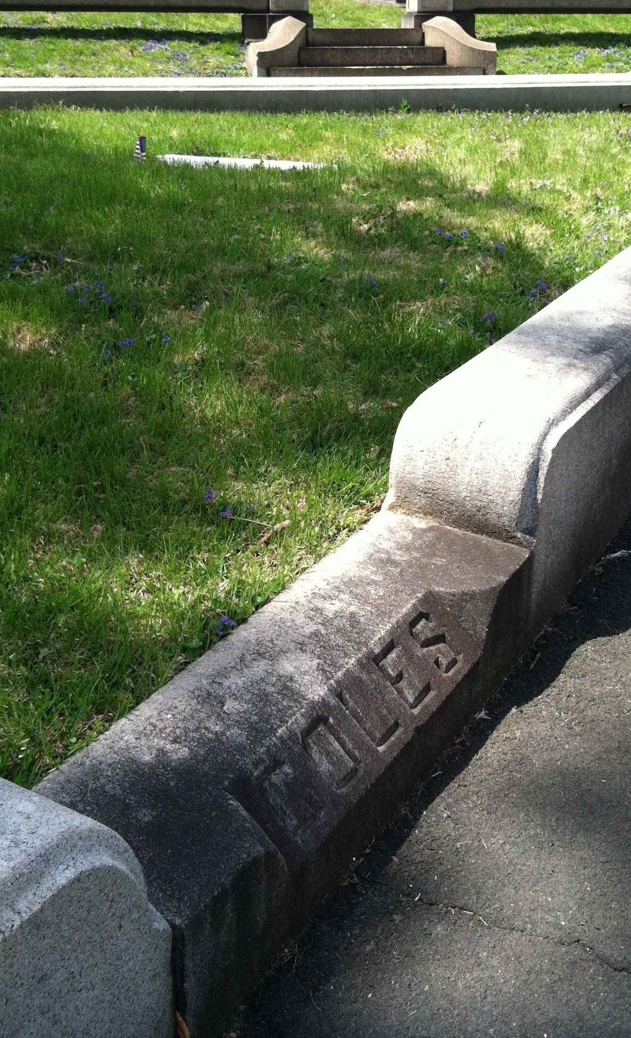 weathered marble graveslab in family plot with small flag